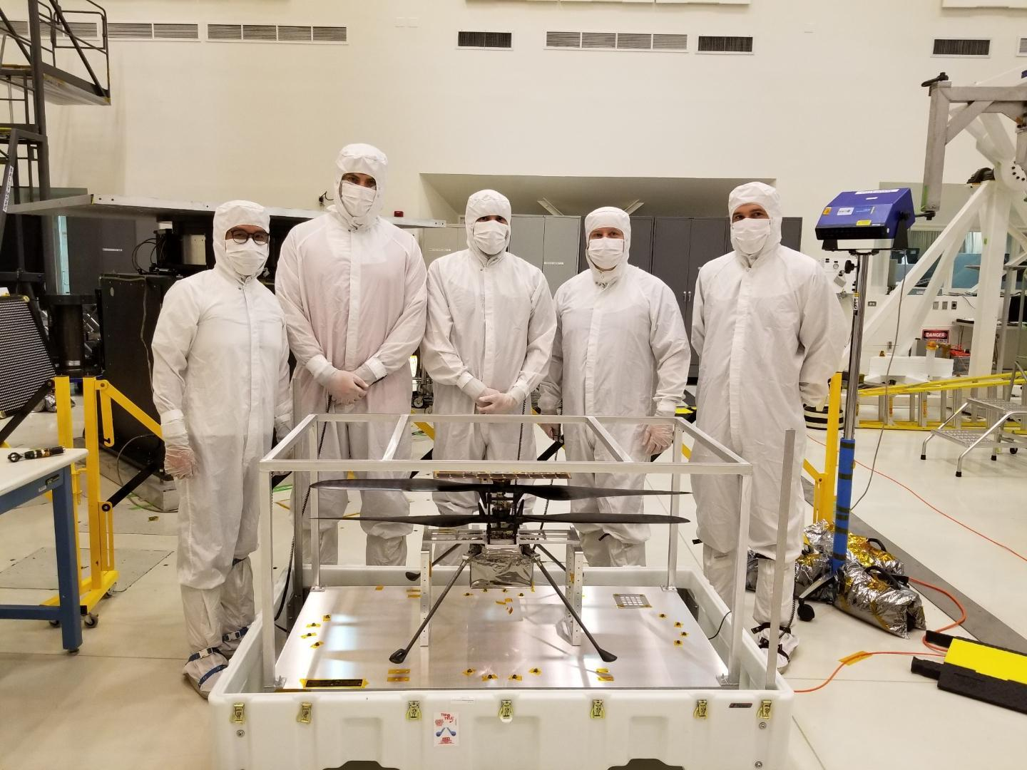 PIA23317: Mars Helicopter Arrives in Clean Room Members from NASA's Mars Helicopter and Mars 2020 teams stand behind the Mars Helicopter. The The image was taken on July 30, 2019 in the Spacecraft Assembly Facility's High Bay 1 at the Jet Propulsion Laboratory in Pasadena, California. NASA's Jet Propulsion Laboratory will build and manage operations of the Mars 2020 rover for the NASA Science Mission Directorate at the agency's headquarters in Washington. For more information about the mission, go to